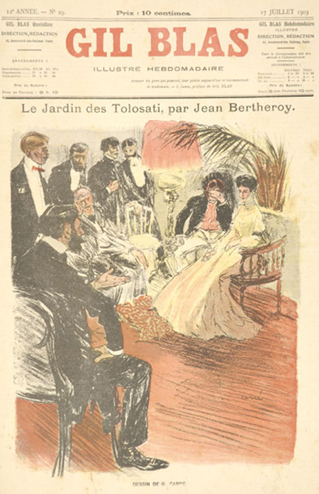 Le Jardin des Tolosati by French writer Berthe-Corinne Le Barillier a.k.a. Jean Bertheroy (1868-1927). Published in Gil Blas, July 1903.